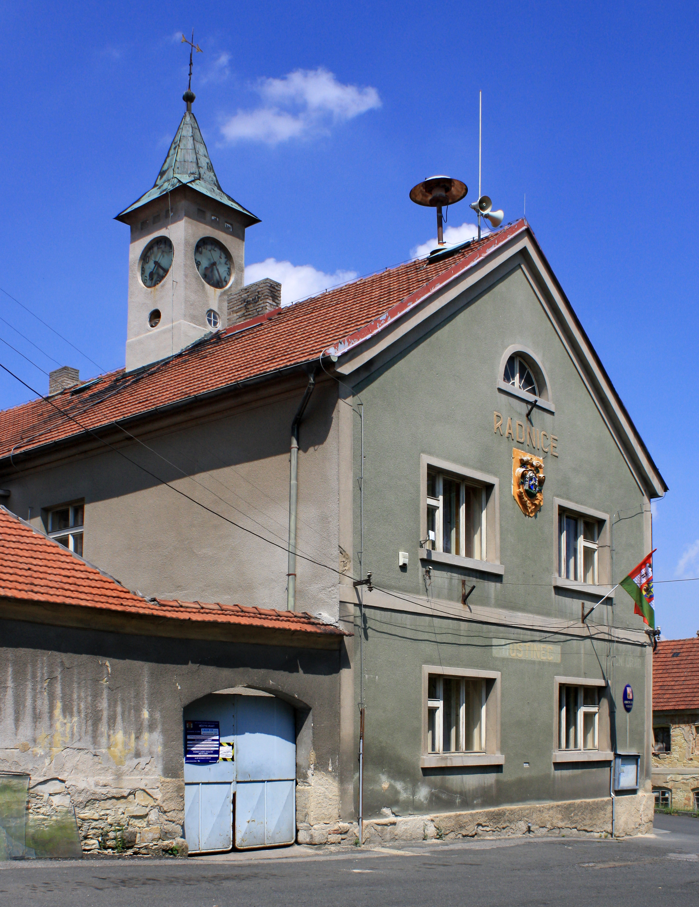 Town hall in Vraný, Czech Republic